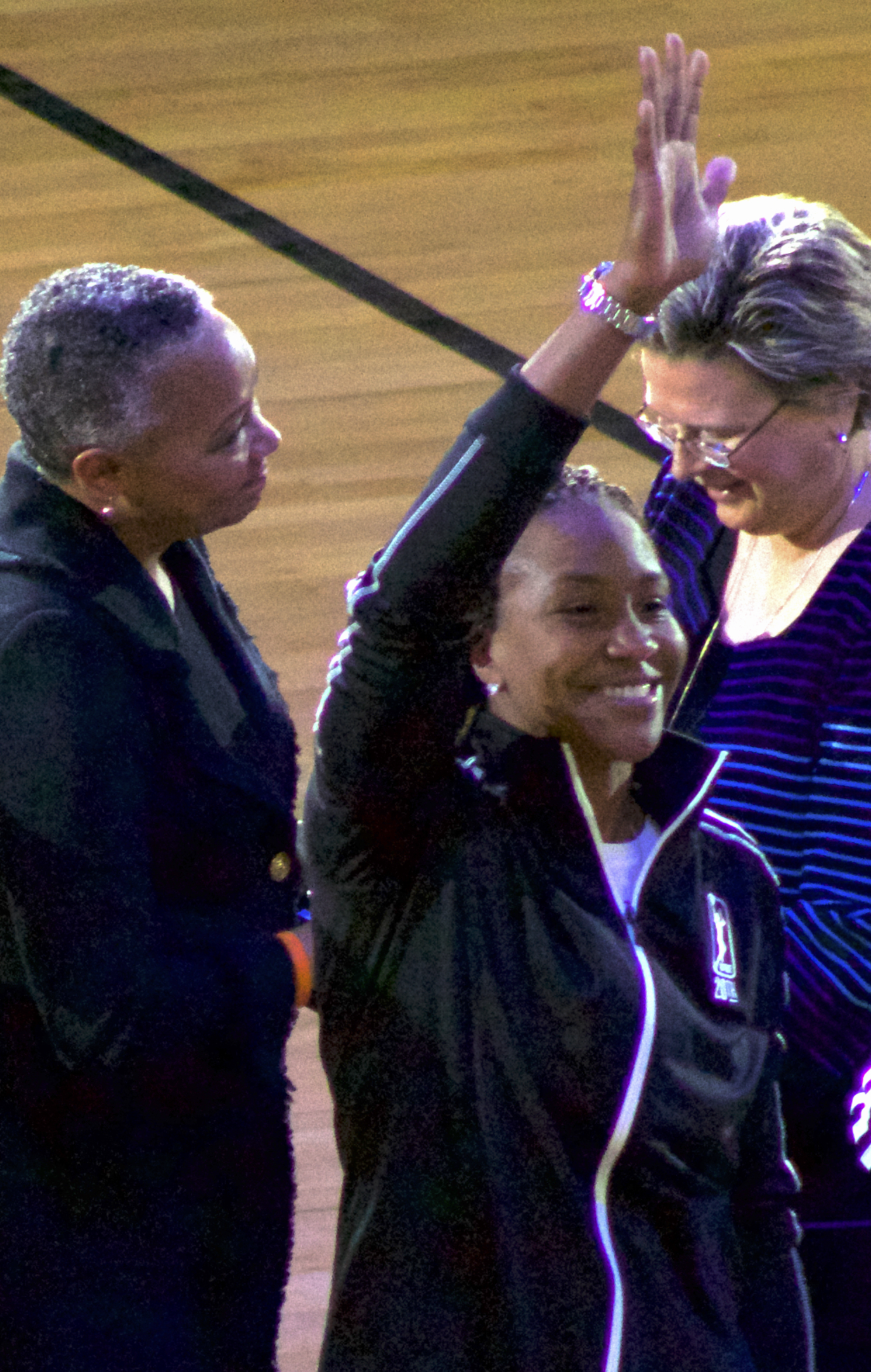 Tamika Catchings of the Indiana Fever at part of the WNBA Top 20@20 ring ceremony. WNBA president Lisa Borders at left.